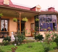 View from Morazan Park or Bar Key Largo in San Jose, Costa Rica